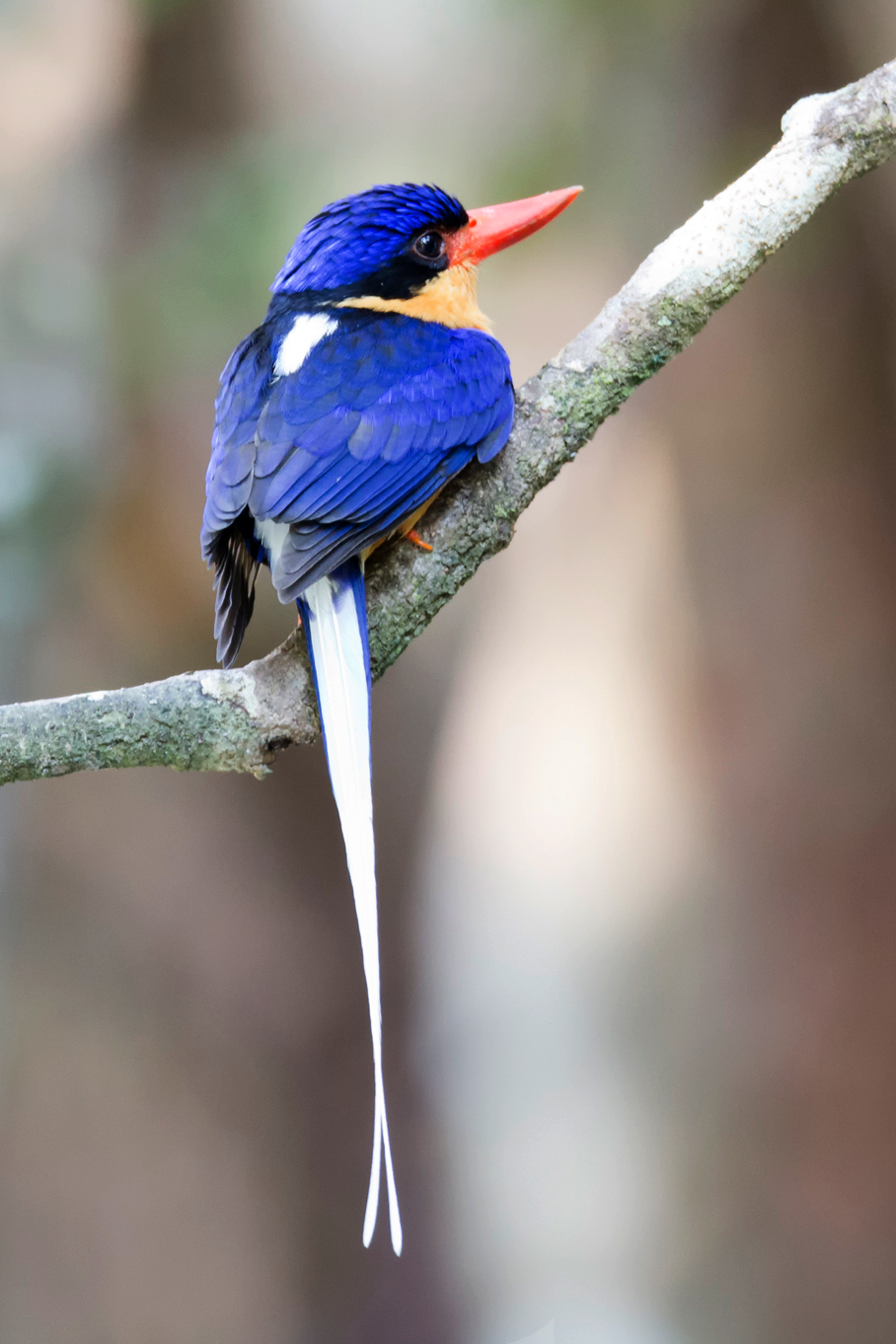 Buff-breasted Paradise Kingfisher (Tanysiptera sylvia). Mount Lewis, Julatten North Queensland, AustraliaBahasa Indonesia: Cekakak-pita dada-jingga (Tanysiptera sylvia). Mount Lewis, Julatten North Queensland, Australia